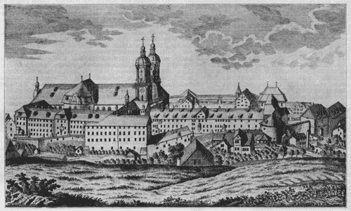 The Abbey of St. Gall 1769 on a contemporary engraving